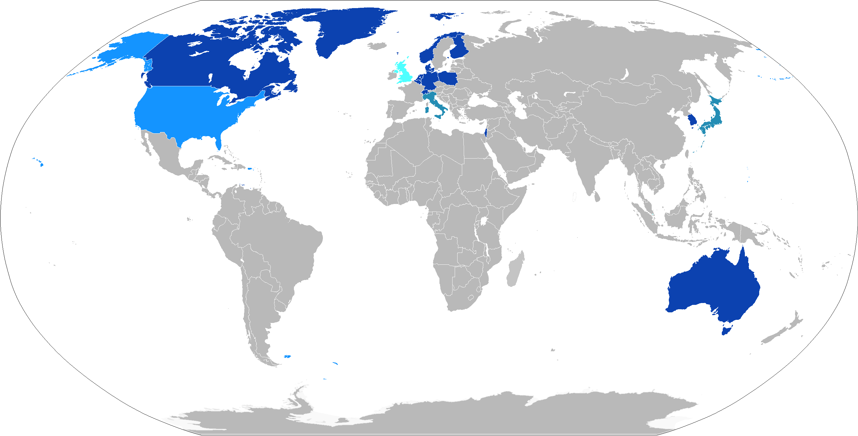 Map with F-35 Lightning II operators F-35A operators (Australian Air Force, Belgian Air Component, Danish Air Force, Israeli Air Force, Norwegian Air Force, Netherlands Air Force, Polish Air Force, South Korean Air Force) F-35B operators (Royal Air Force / Royal Navy, Singapore Air Force) F-35A and F-35B operators (Italian Air Force / Italian Navy, Japan Air Force) F-35A, F35-B and F-35C operators (US Air Force / US Marine Corps / US Navy)